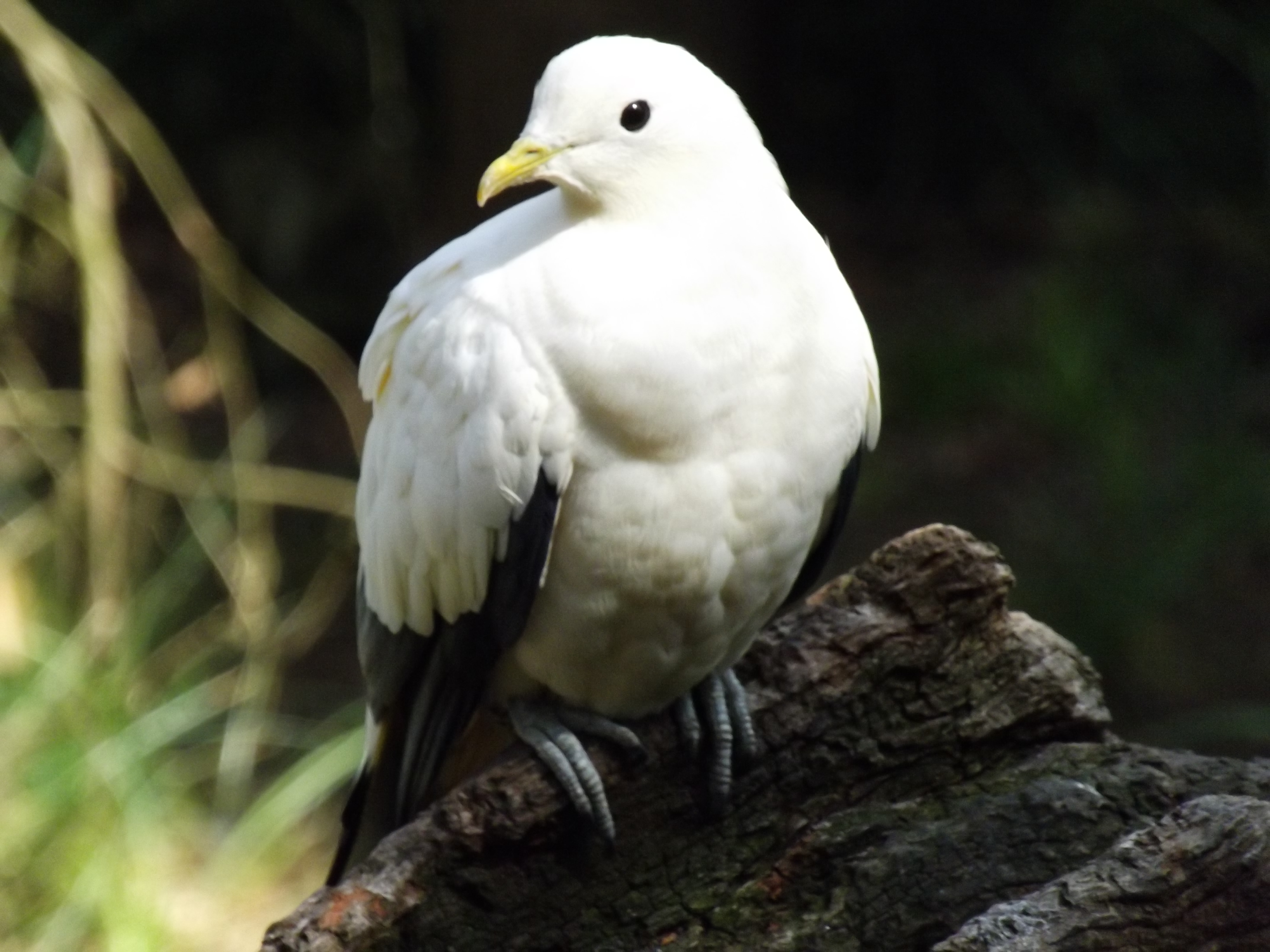 An Australian pied imperial pigeon (Ducula spilorrhoa) at the Melbourne Zoo.